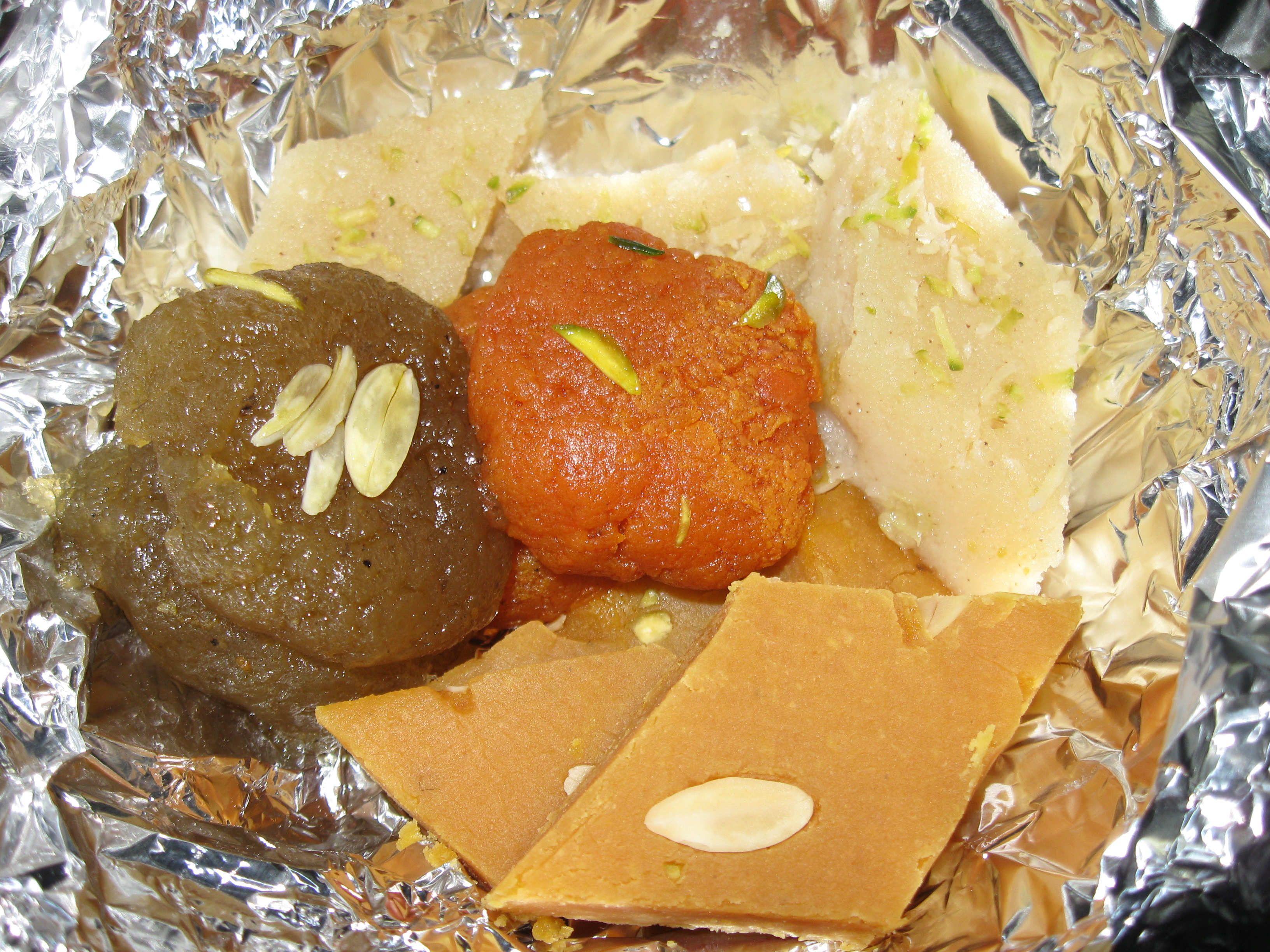 A decoration of Bangladeshi halwa preparations. Here can be seen the halwas made of (from left) papaya, carrot and semolina; below these is the halwa made of chickpeas.